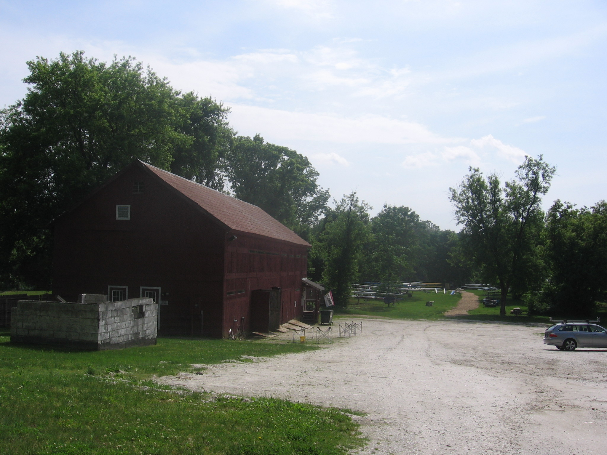 The GMS Rowing Center at 172 Grove Street in New Milford, Connecticut, USA lies along the Housatonic River.